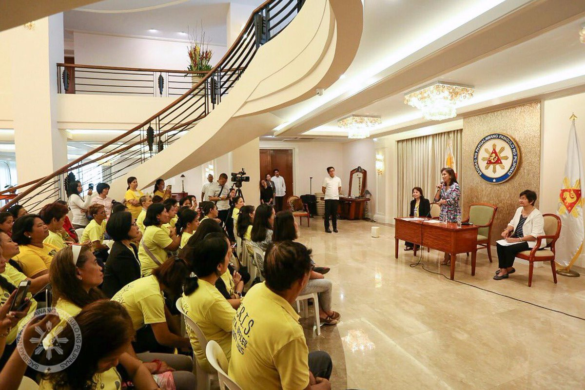 Dialogue with Pantawid Pamilyang Pilipino Program (4Ps) Beneficiaries